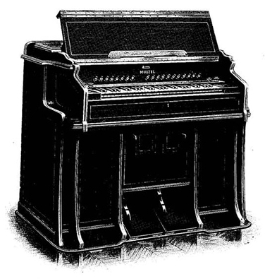 Mustel Art Harmonium, after 1910